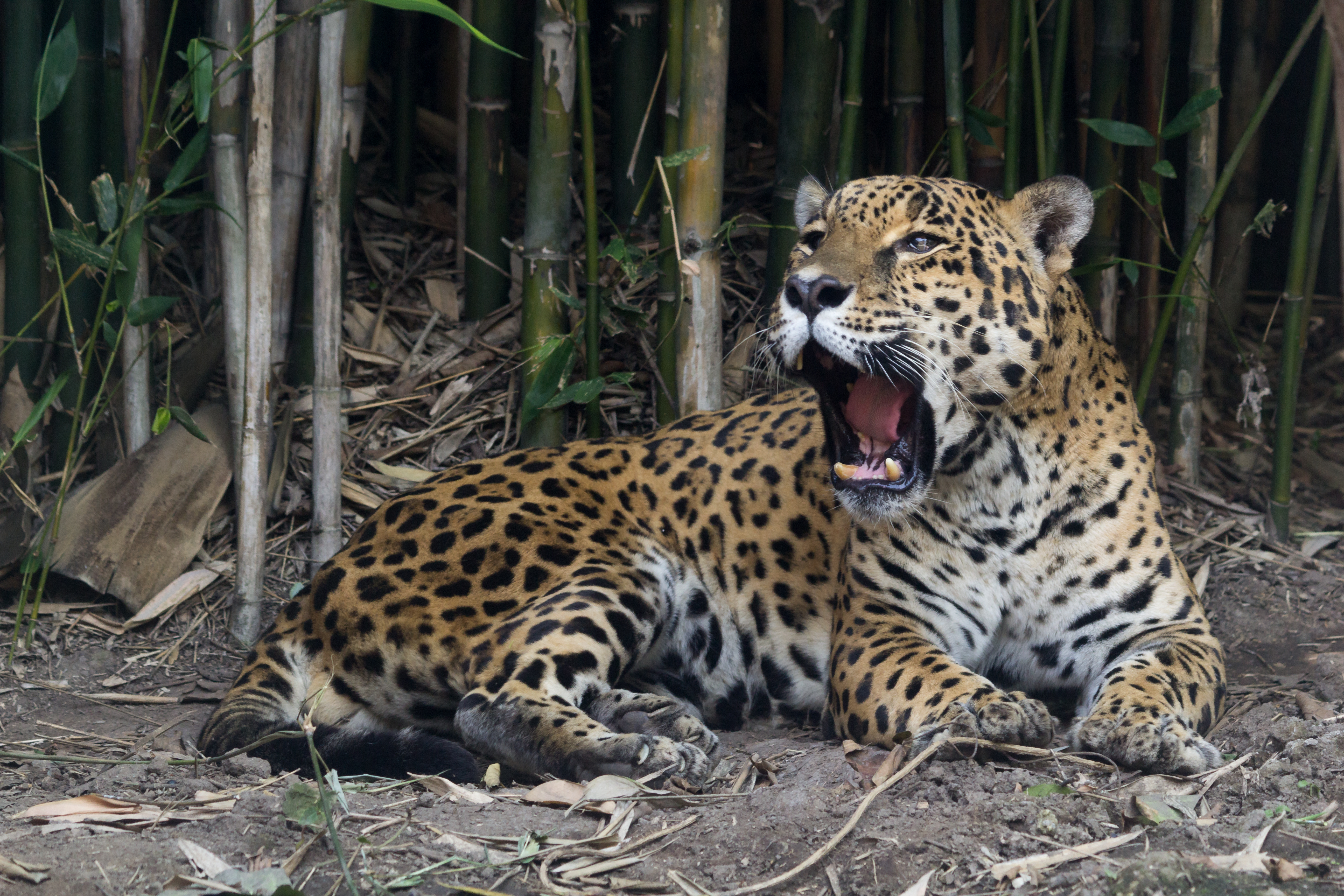 Jaguar (Panthera onca) in Chapultepec Zoo.